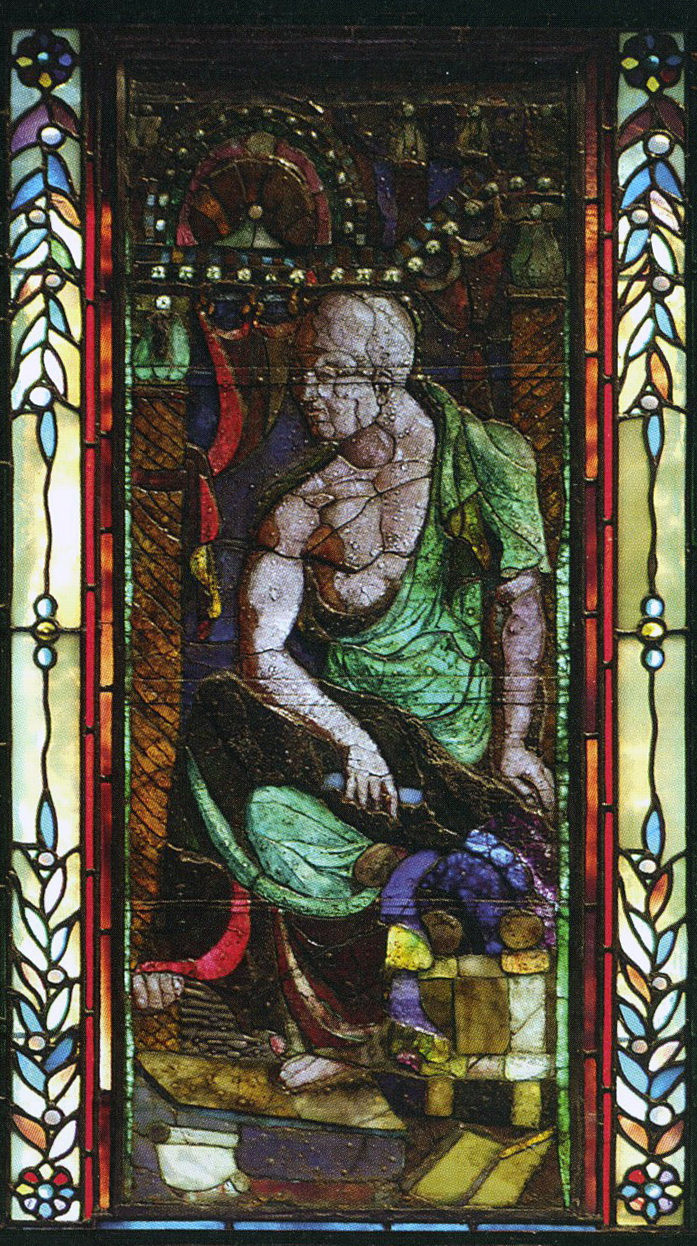 Thomas Crane Public Library